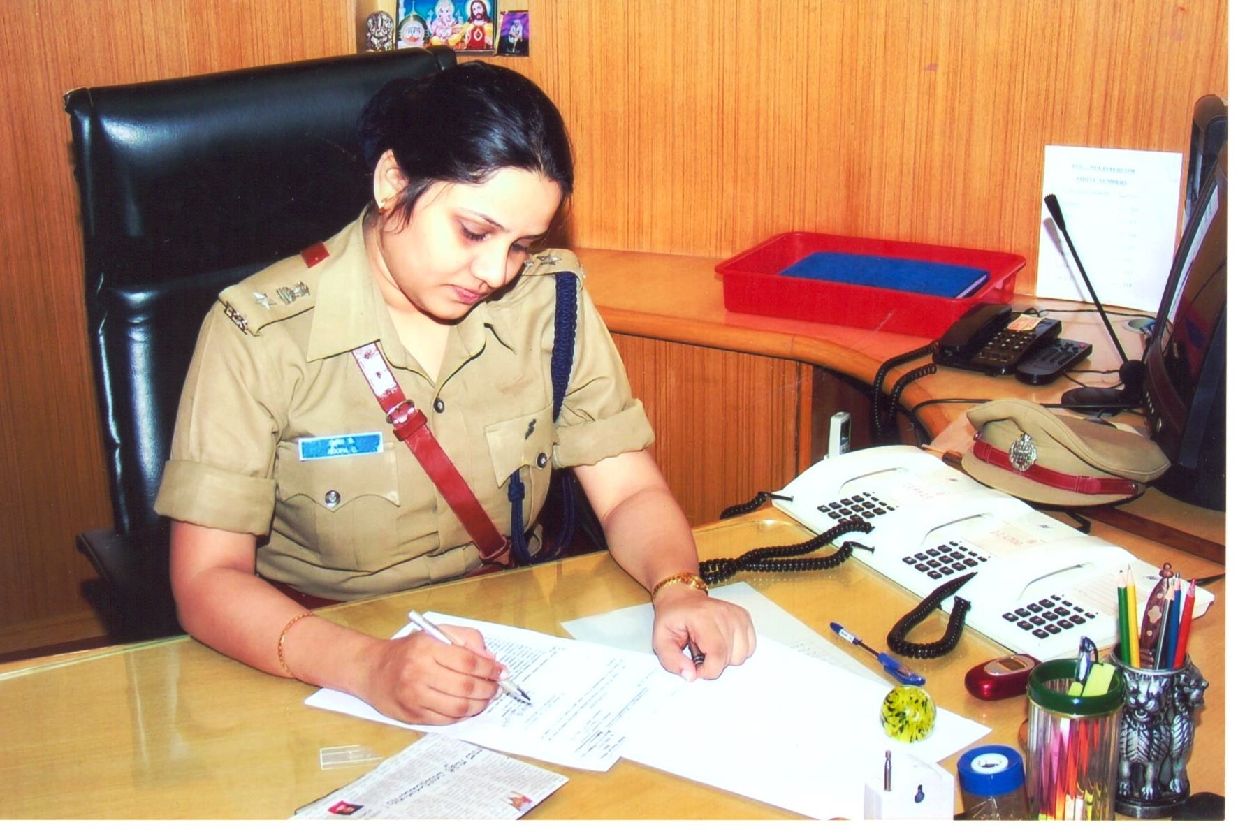 As Superintendent of police